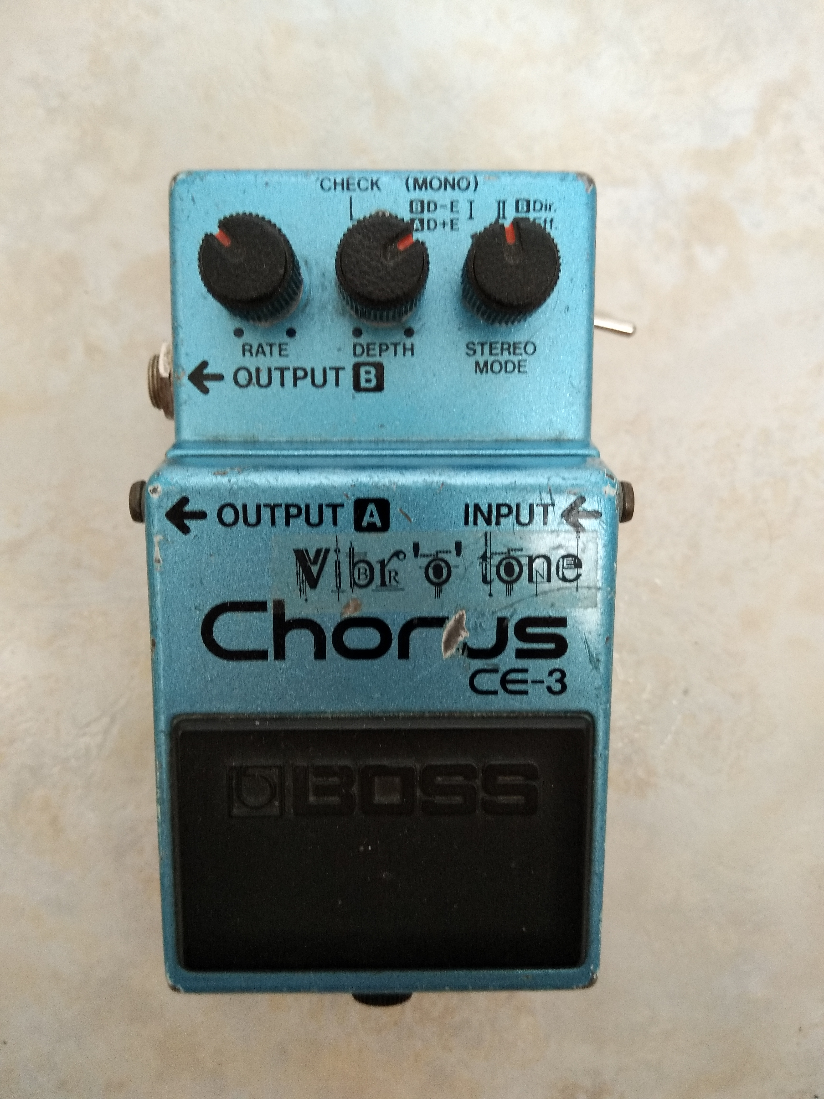 Boss CE-3 chorus pedal made in Japan in August 1984 according to the serial number. The pedal has been modded by MSM Workshop ("Vibr'o'tone" mod, switch on the right of the pedal). When using the II stereo mode, output B gives the dry signal while output A gives a vibrato. Top view.